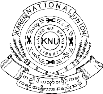 Karen National Union (KNU) seal In Karen: ကညီဒီကယလုာ်စ၊ဖှိဉ်ကရး မြန်မာဘာသာ: ကရင် အမျိုးသား အစည်းအရုံး တံဆိပ်